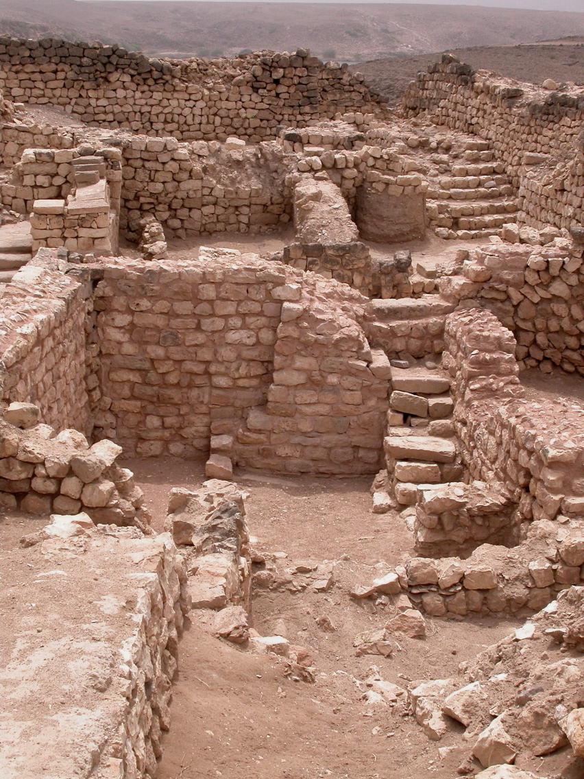 The ruins of the ancient city of Sumharam also known as Khor Rori